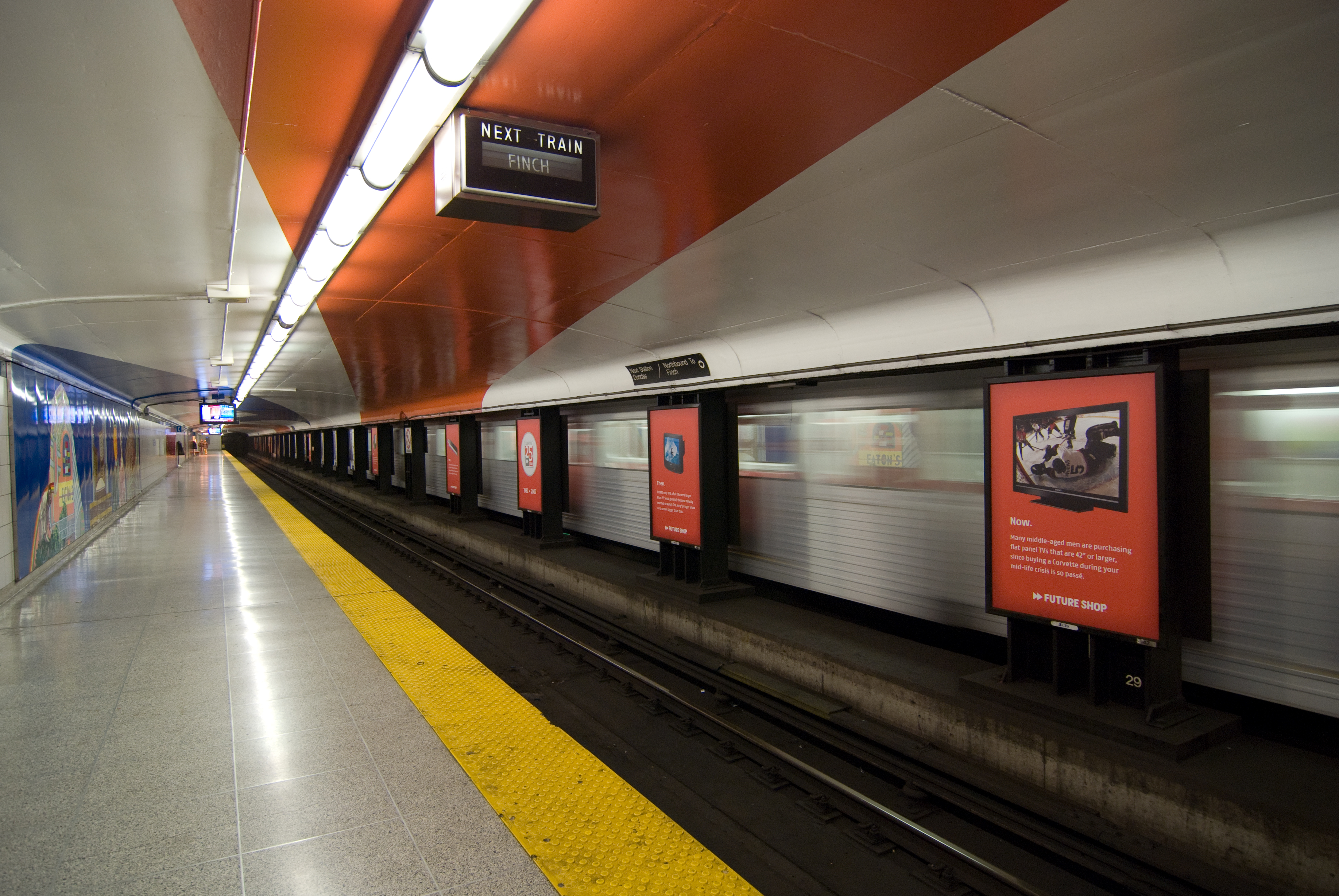 Empty train southbound, after end of service